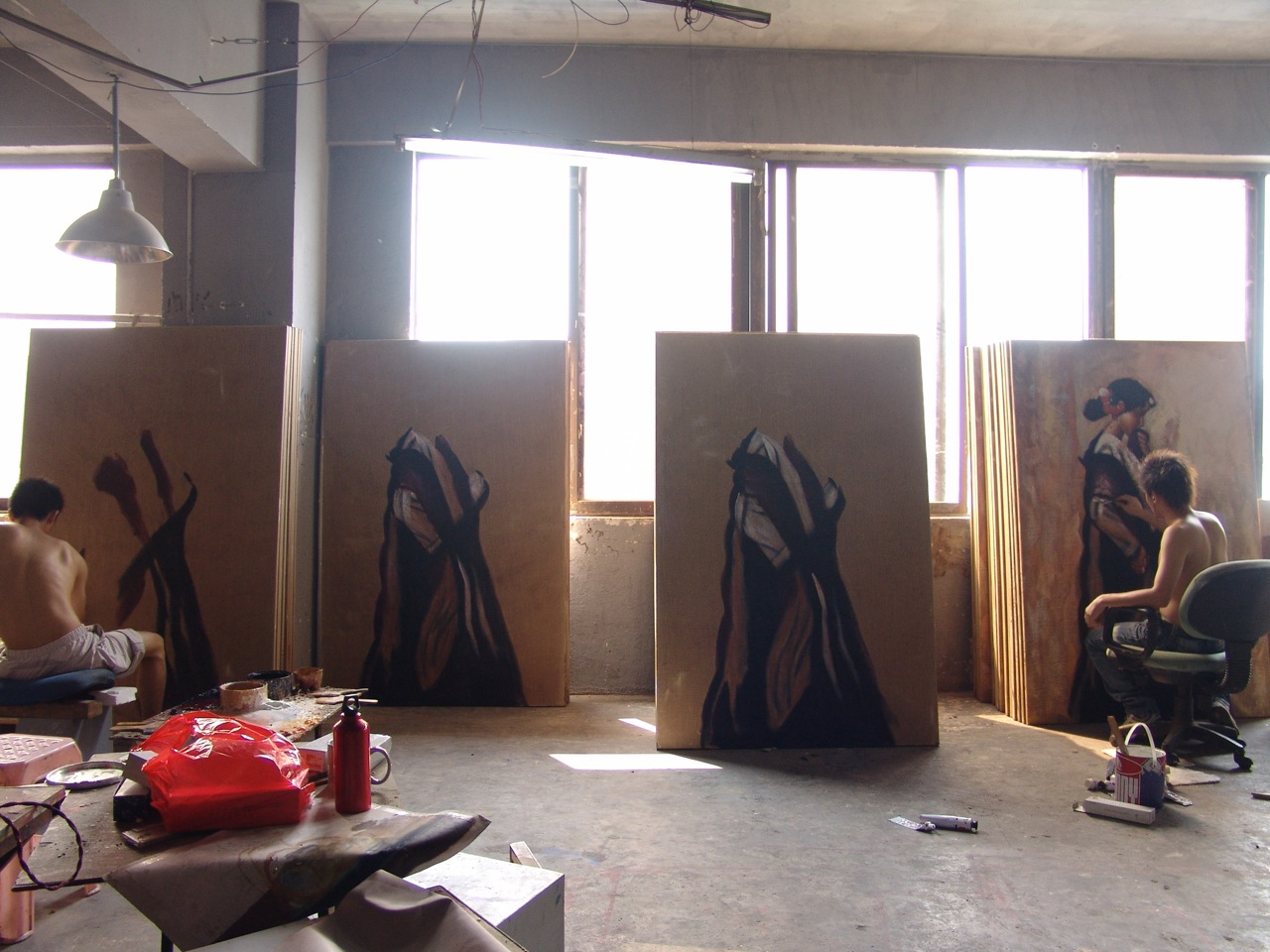 photo taken inside Dafen Louvre building of a rare production line style painting operation. ©2006 Stephen R Woolverton